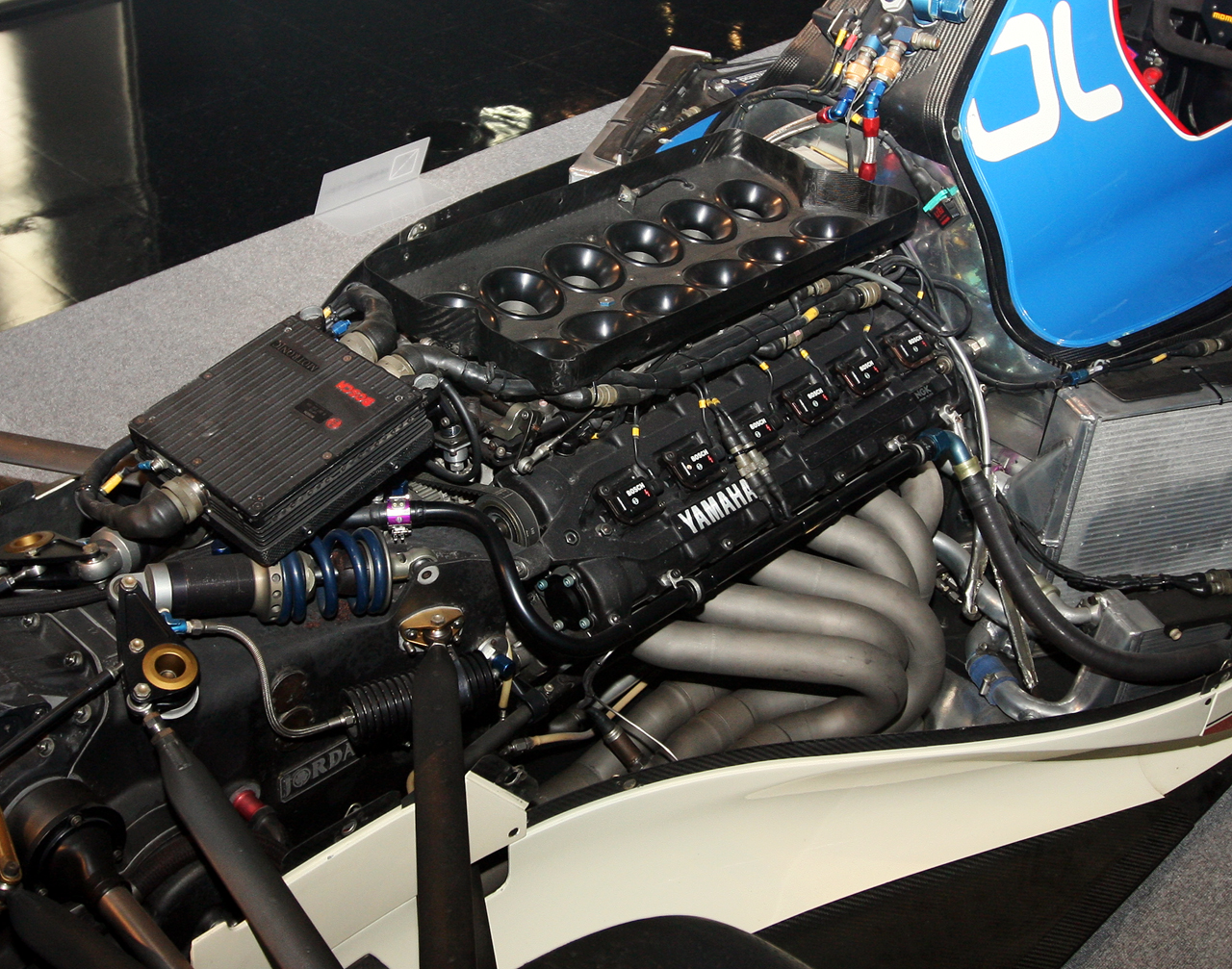 Yamaha OX99 engine in the Jordan 191Y.